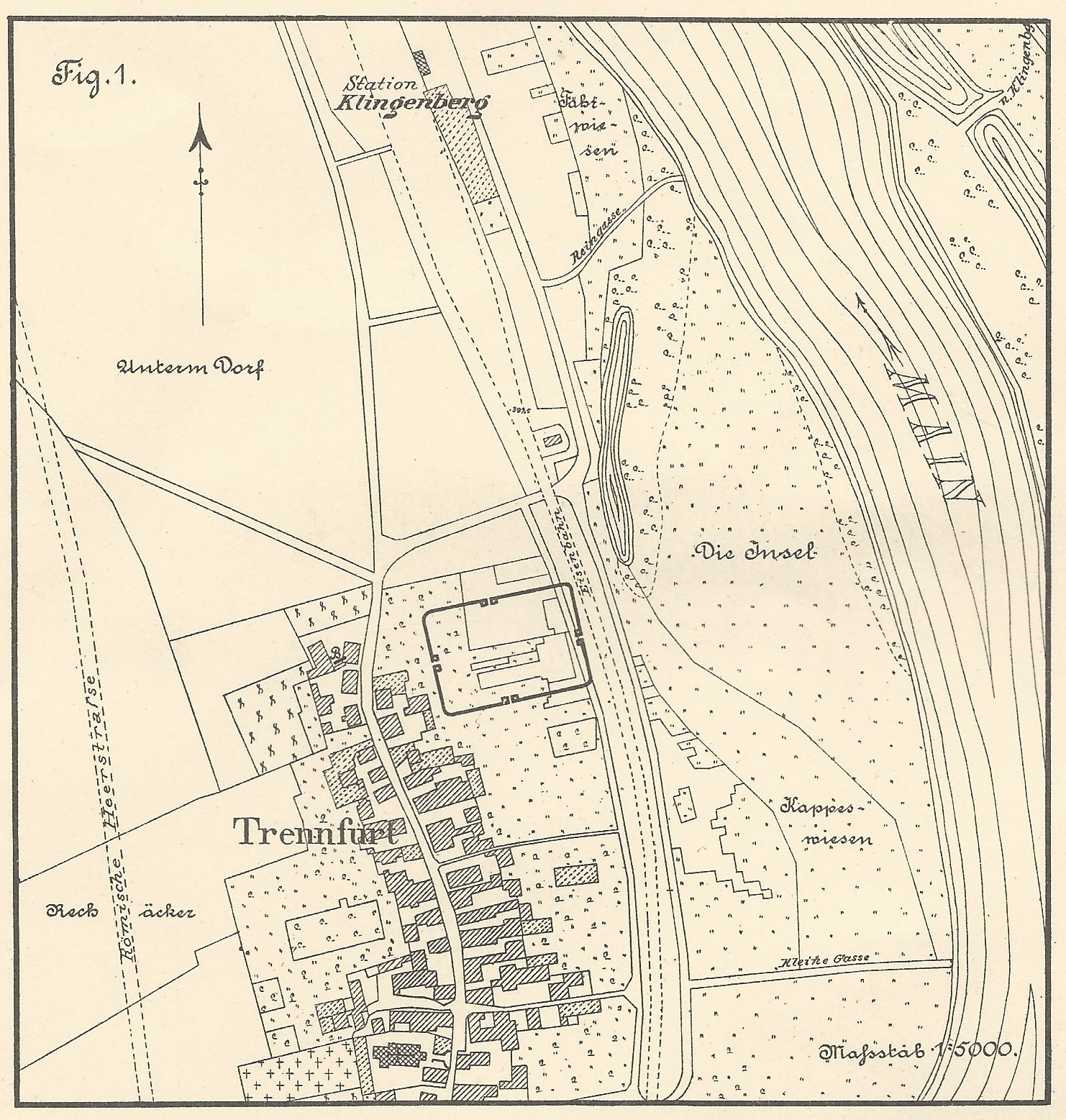 Map of the Roman castrum Trennfurt (ORL 37) at the river Main, Upper Germanic-Rhaethian Limes